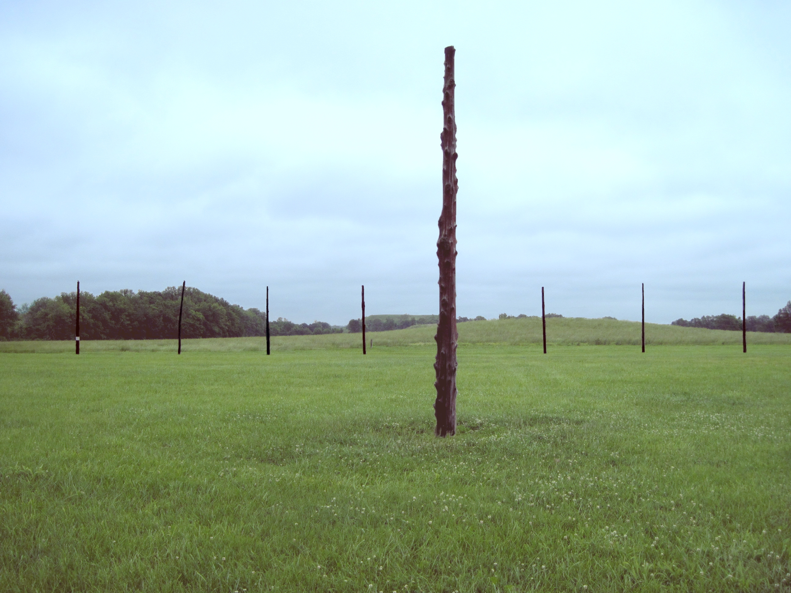 The central column of Cahokia's 'Woodhenge' aligned as it would be for the equinoxes.